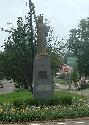 Statue of Liberty